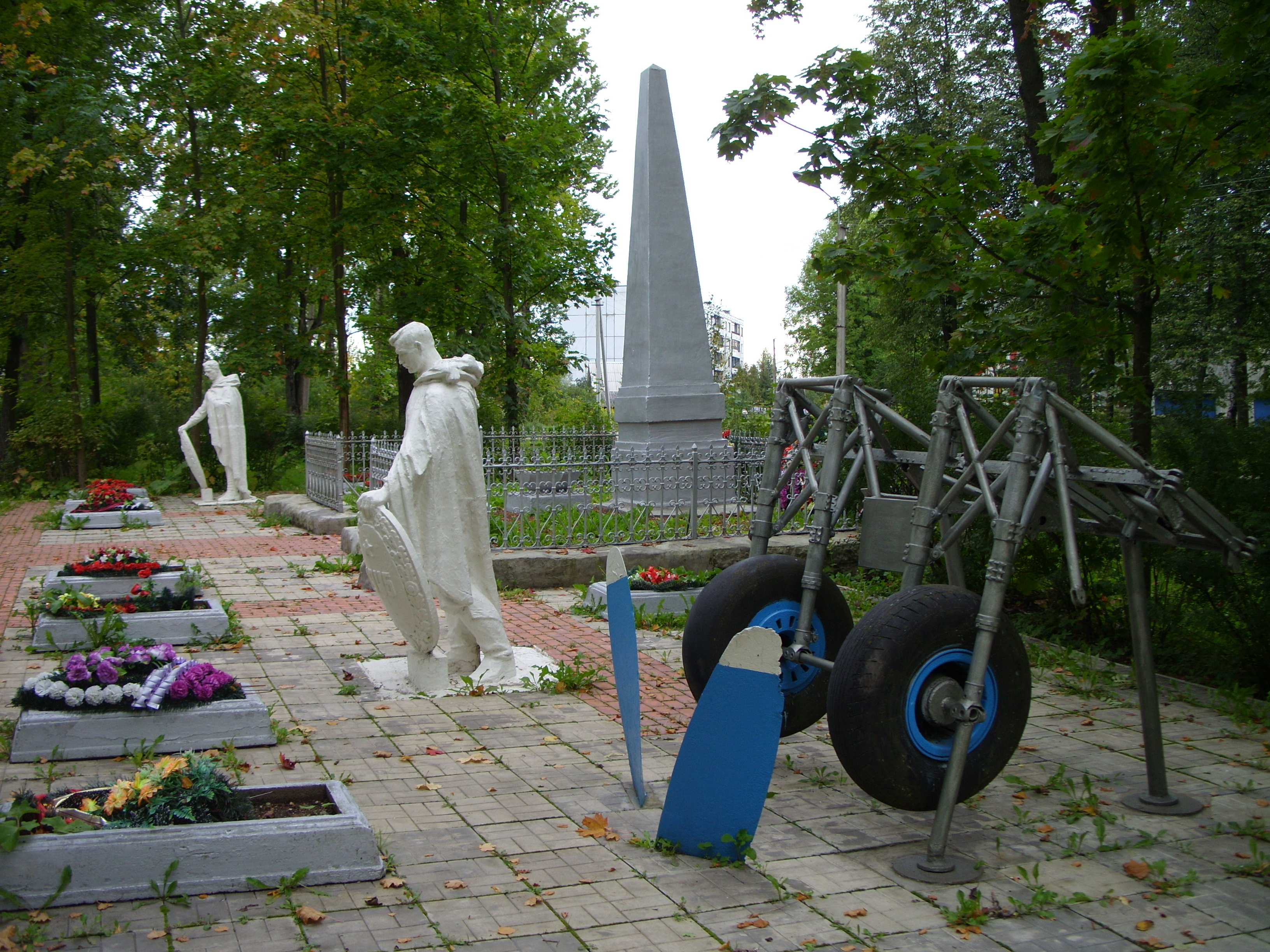 Dno Pamjatnik